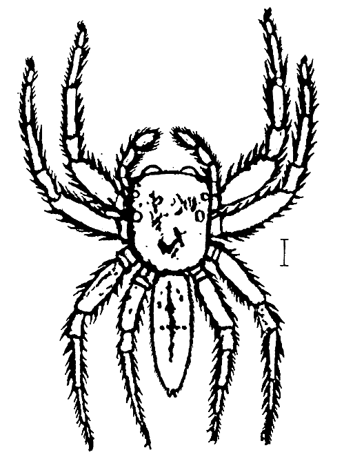 Carrhotus sannio male from Workman, 1896. Specimen from Pinang, Malaysia.